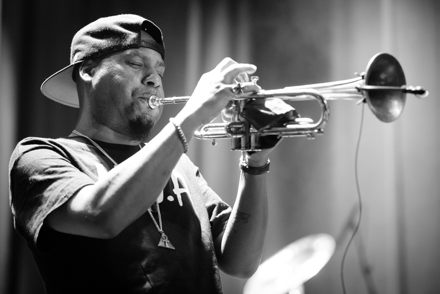 Russell Gunn with Marcus Miller in concert at Cosmopolite. The concert took place on 21. April 2018 in Oslo. Lineup: Marcus Miller (bass guitar and bass clarinet), Brett Williams (keyboard), Alex Bailey (drums), Alex Han (saxophone), Russell Gunn (trumpet) and special guest Marius Neset (saxophone).